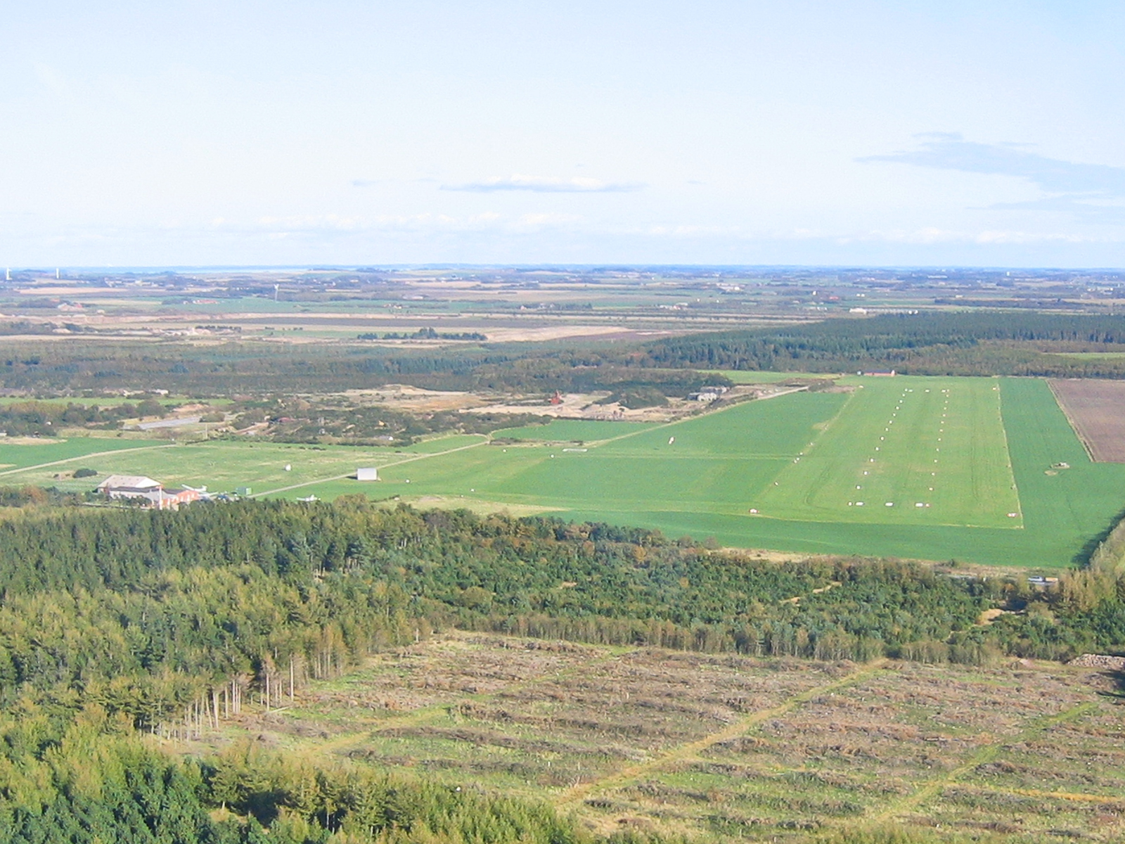 Aerial photo EKLV Lemvig airfield RWY08